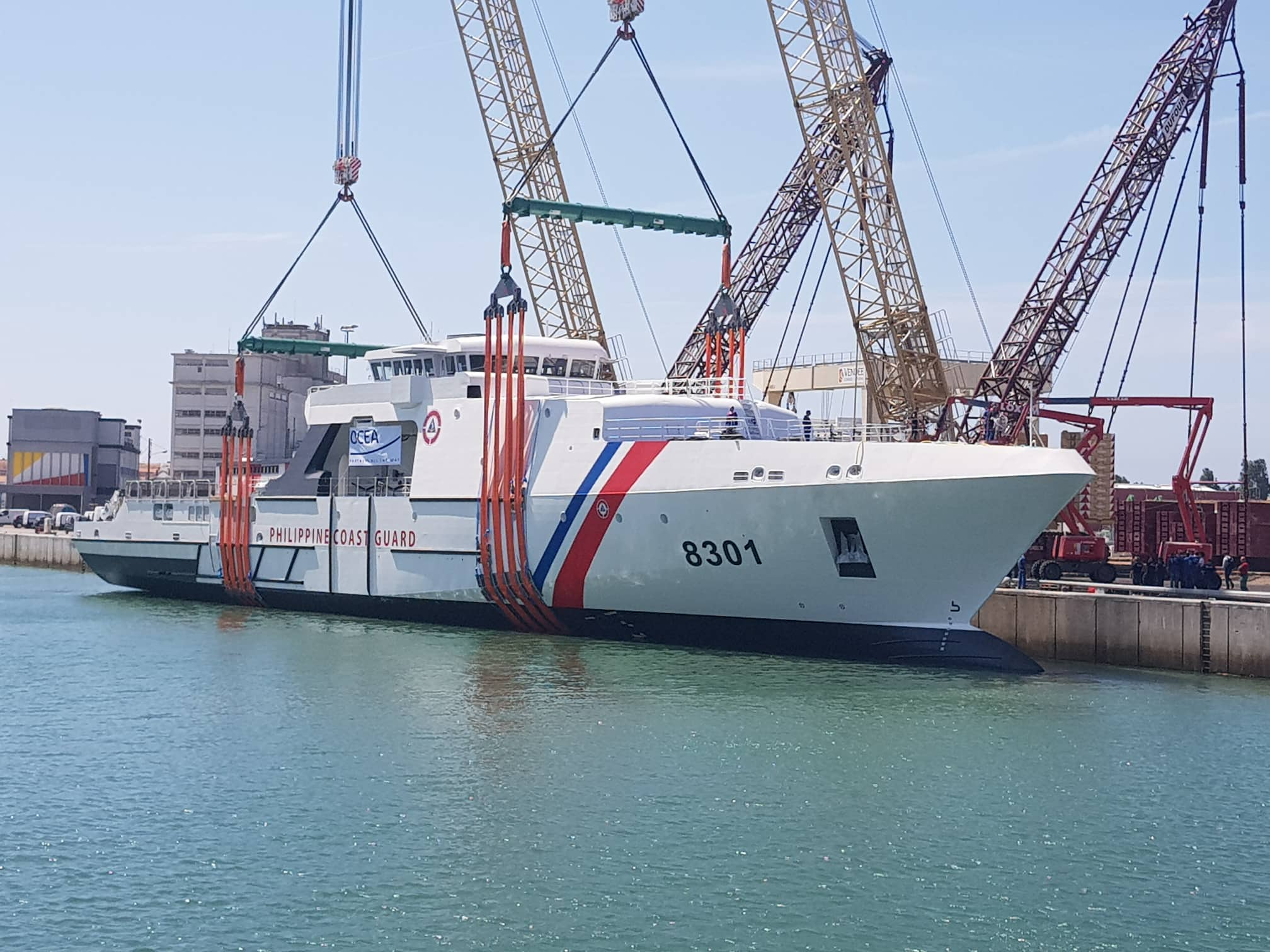 The BRP Gabriela Silang (OPV-8301) has formally launched at OCEA shipyard in France last July 17, 2019. Owned by Philippine Coast Guard and it is public domain.